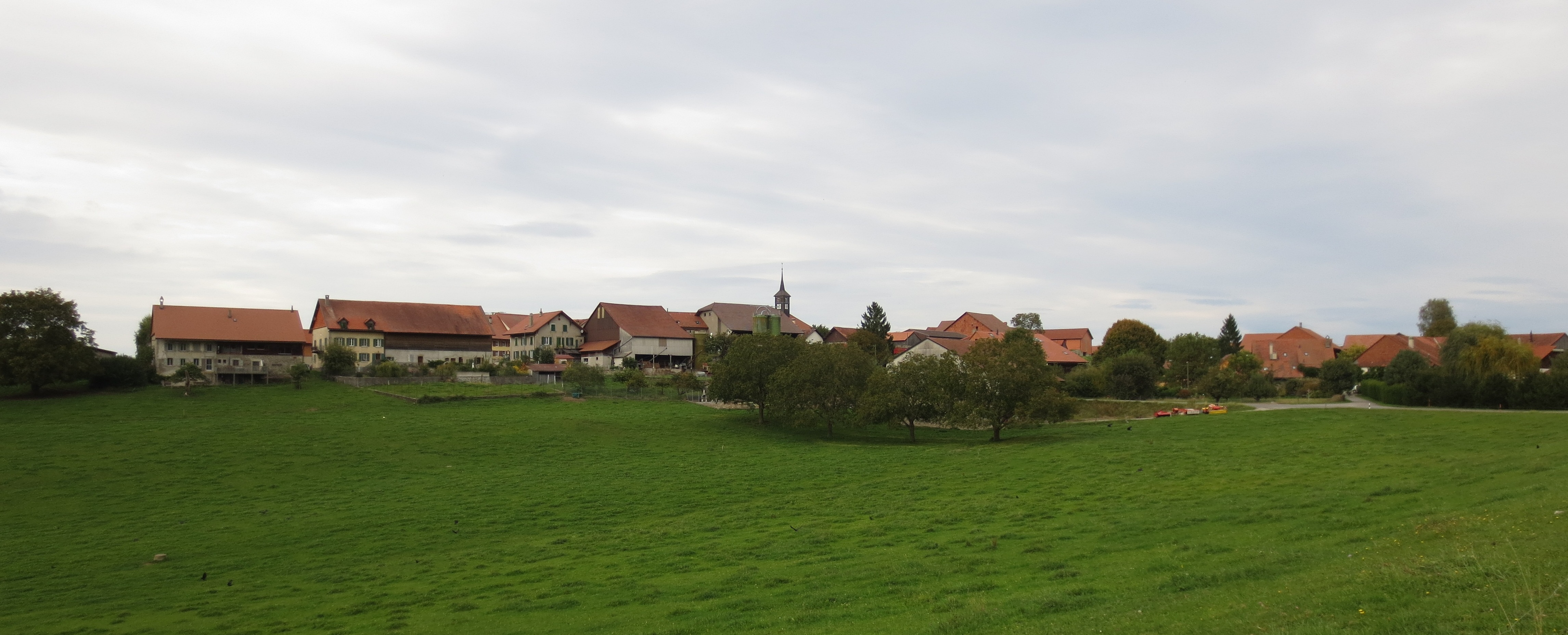 Lovatens, Canton of Vaud, Switzerland